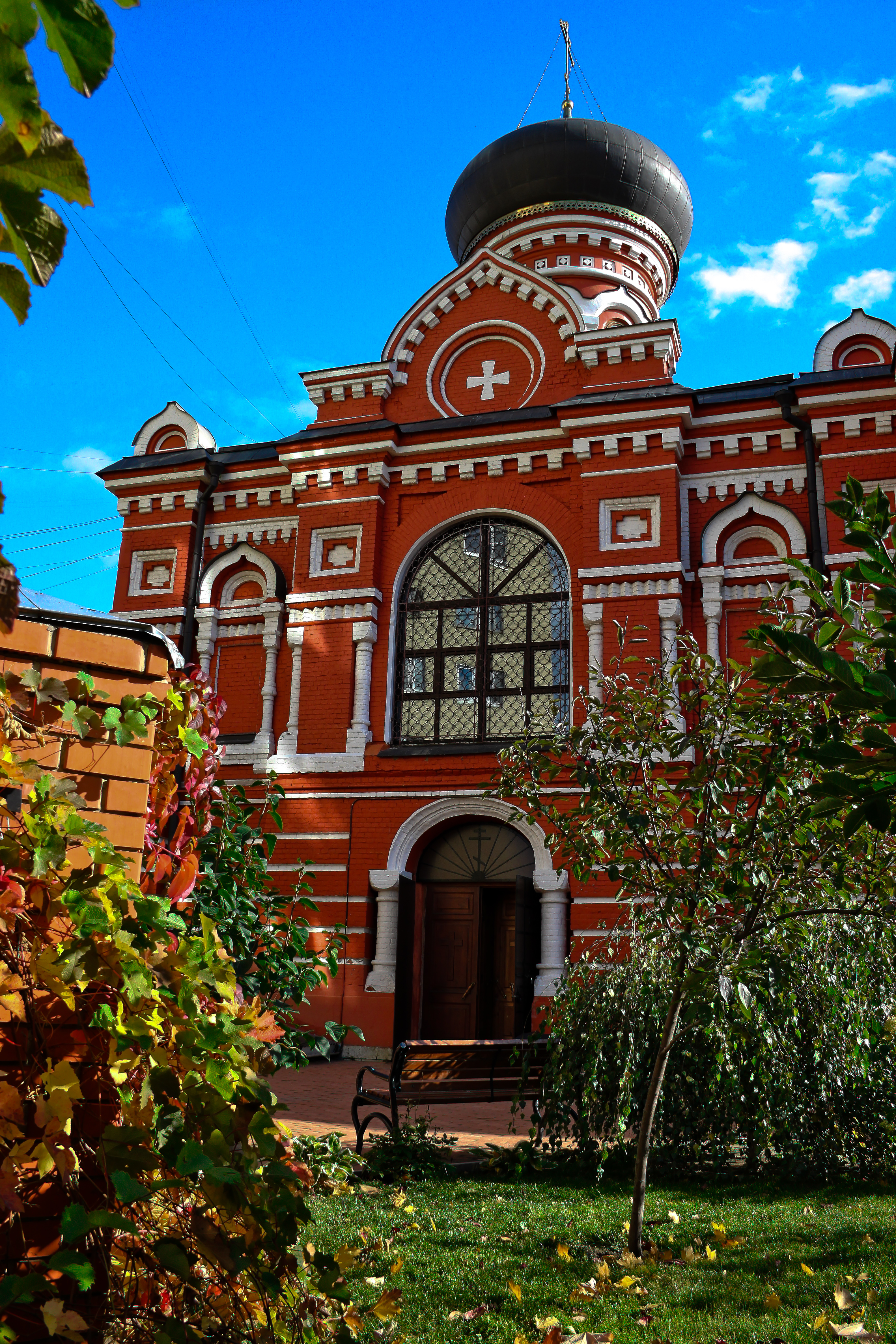 Church of the Dormition of the Theotokos. Krasnogorsk, Moscow Oblast, Russia